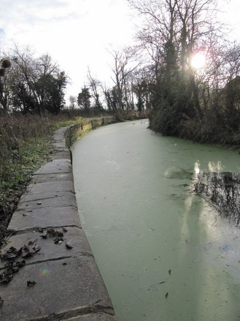 Childrey Wharf on the abandoned Wilts & Berks canal north of Childrey, Oxfordshire (formerly Berkshire), after restoration